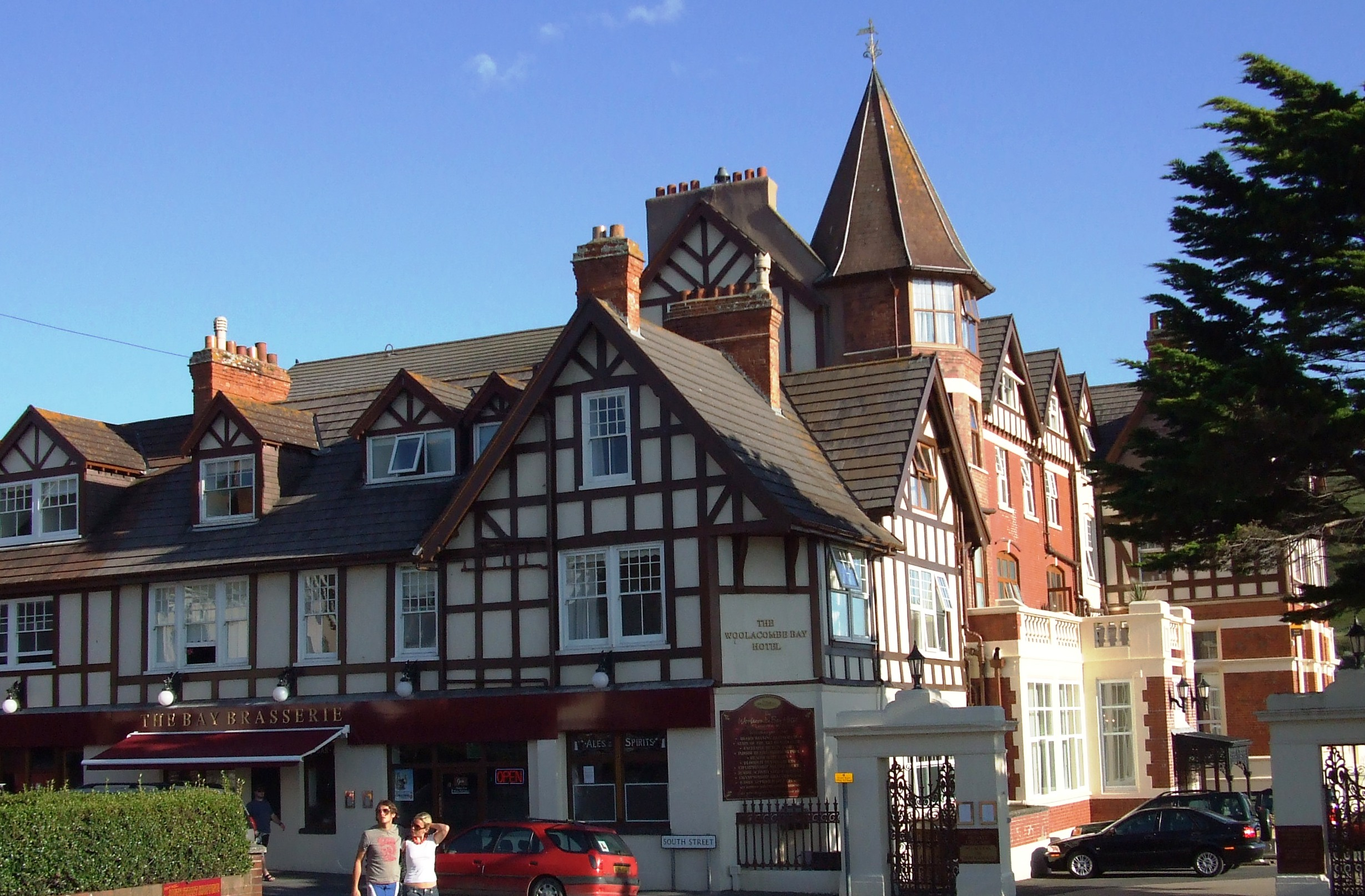 Woolacombe Bay Hotel